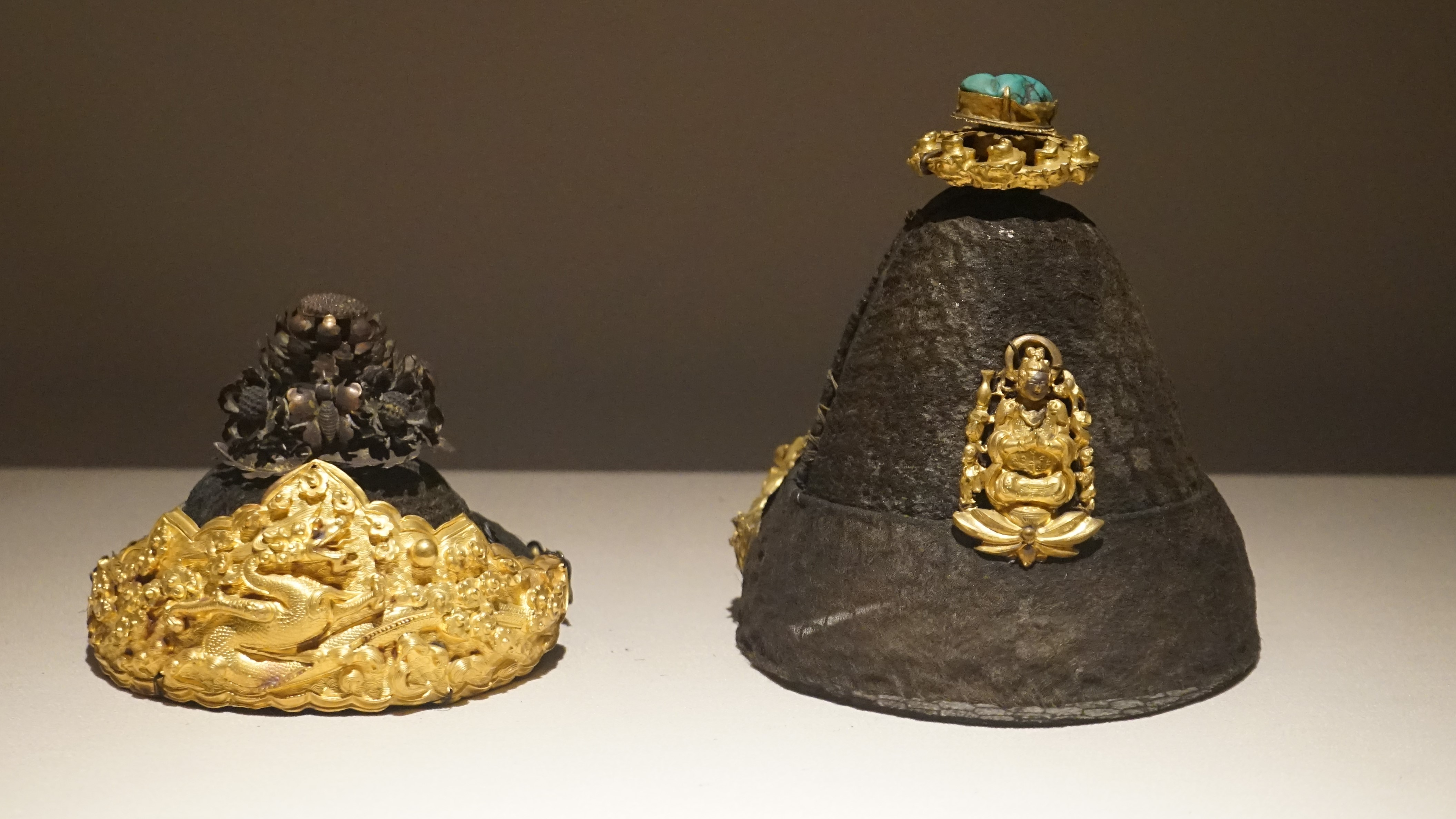 Qingyun Coronal with peal and jade. 横山桥王洛家族墓葬。国家一级文物